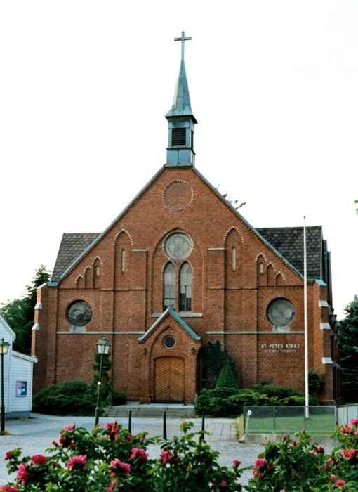 St Peter church, Halden, Norway. Erected 1877. Architect: Pierre Cuypers.